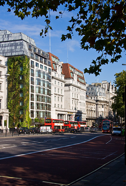 The Athenaeum and Park Lane hotels, on Piccadilly, London, UK.